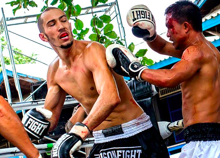 Dave Leduc fighting Thai inmate inside maximum security prison on Thailand.